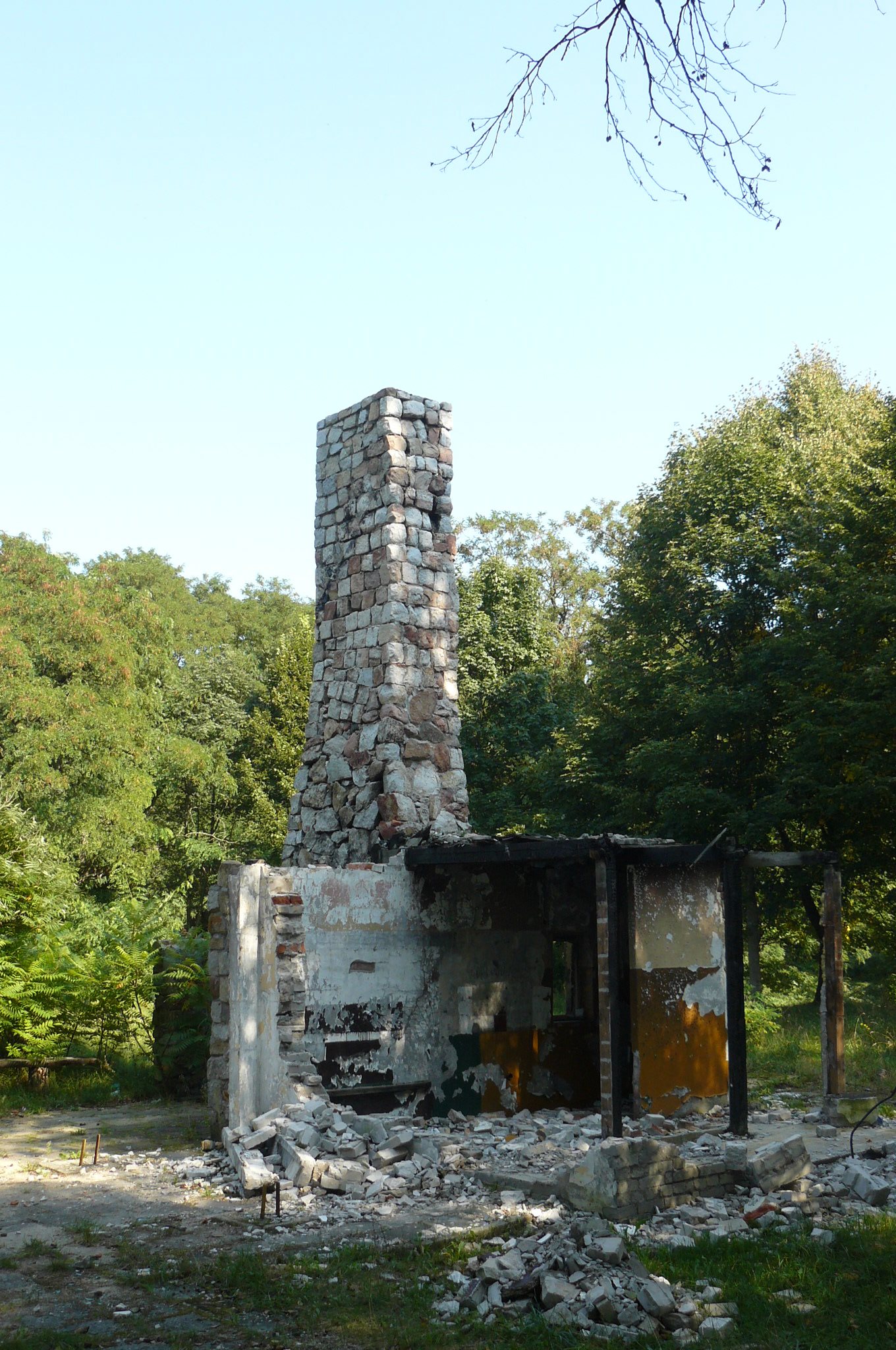 Remains of the open-air museum (WW2) - Zdbice.